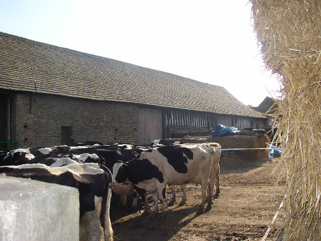 Gunthwaite Barn. This is an eleven-bay aisled barn 50m long, with timber-framing on a stone base. It is at Gunthwaite Hall at SE238065, and was built between 1500 and 1550.